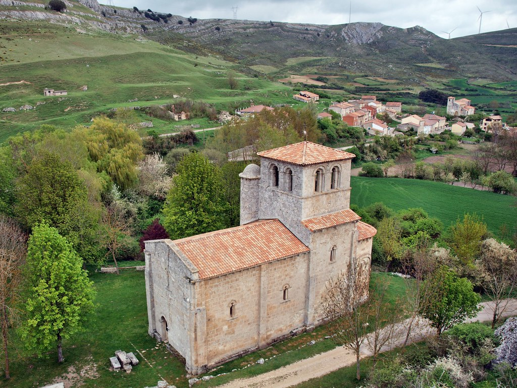 La ermita de Nuestra Señora del Valle es un templo de estilo románico ojival bizantino situado en Monasterio de Rodilla, un municipio burgalés (España). Es del siglo XII, se construyó hacia 1170. En su lugar, estaba previamente el monasterio de Santa María del Valle.